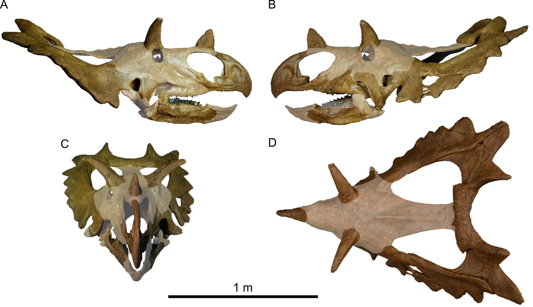 Skull reconstruction of Spiclypeus shipporum gen et sp. nov. (CMN 57081). (A) Left lateral view; (B) right lateral view; (C) anterior view; (D) dorsal view. Missing parts of skull shown faded.